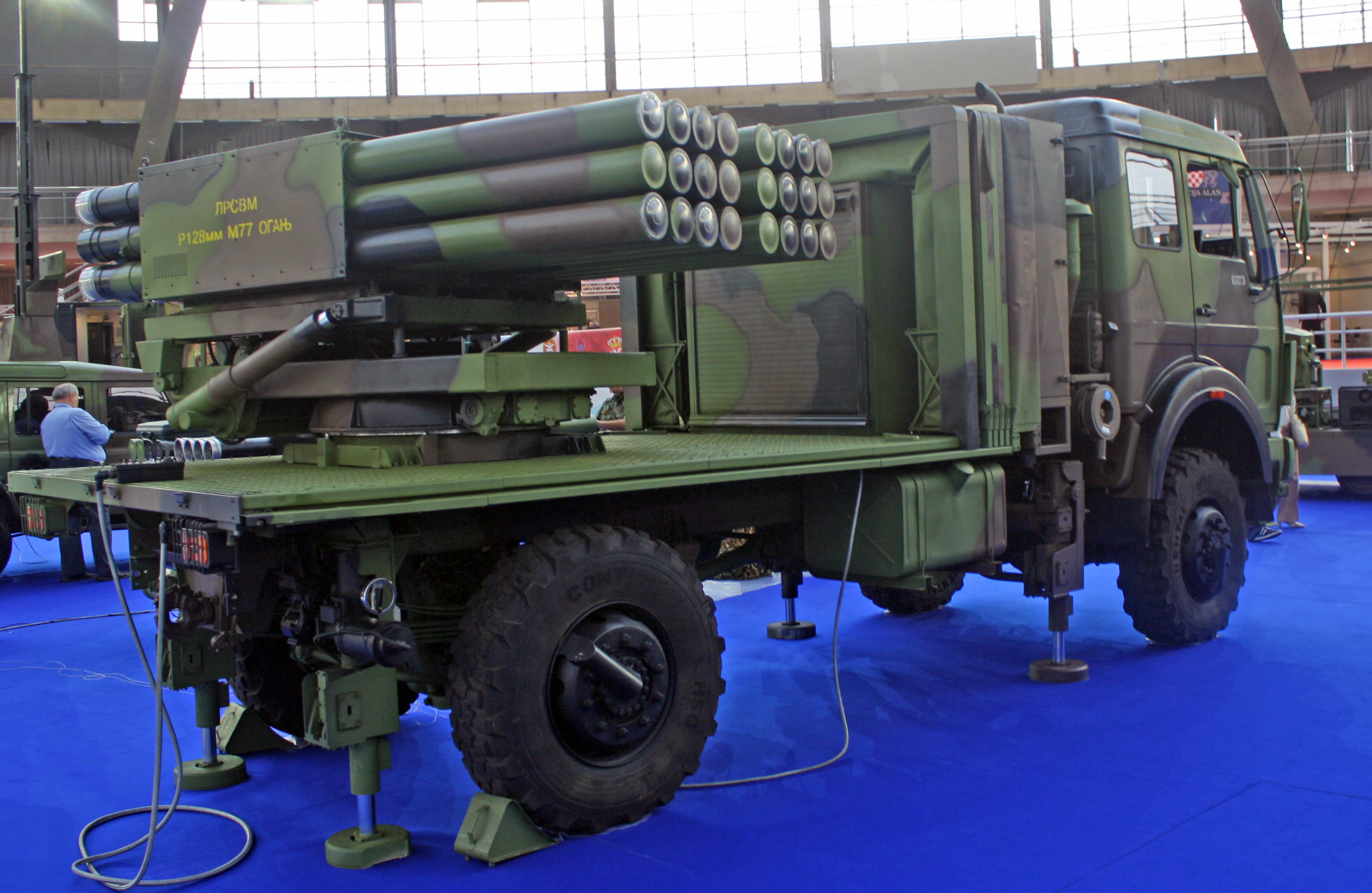 New Serbian Modular multiple rocket launcher (LRSVM) which can fire various rockets as 128mm Oganj (mounted on truck on picture), 122mm Grad and 128mm Plamen. System is mounted on new FAP 1118 truck. "Partner 2011" military fair.